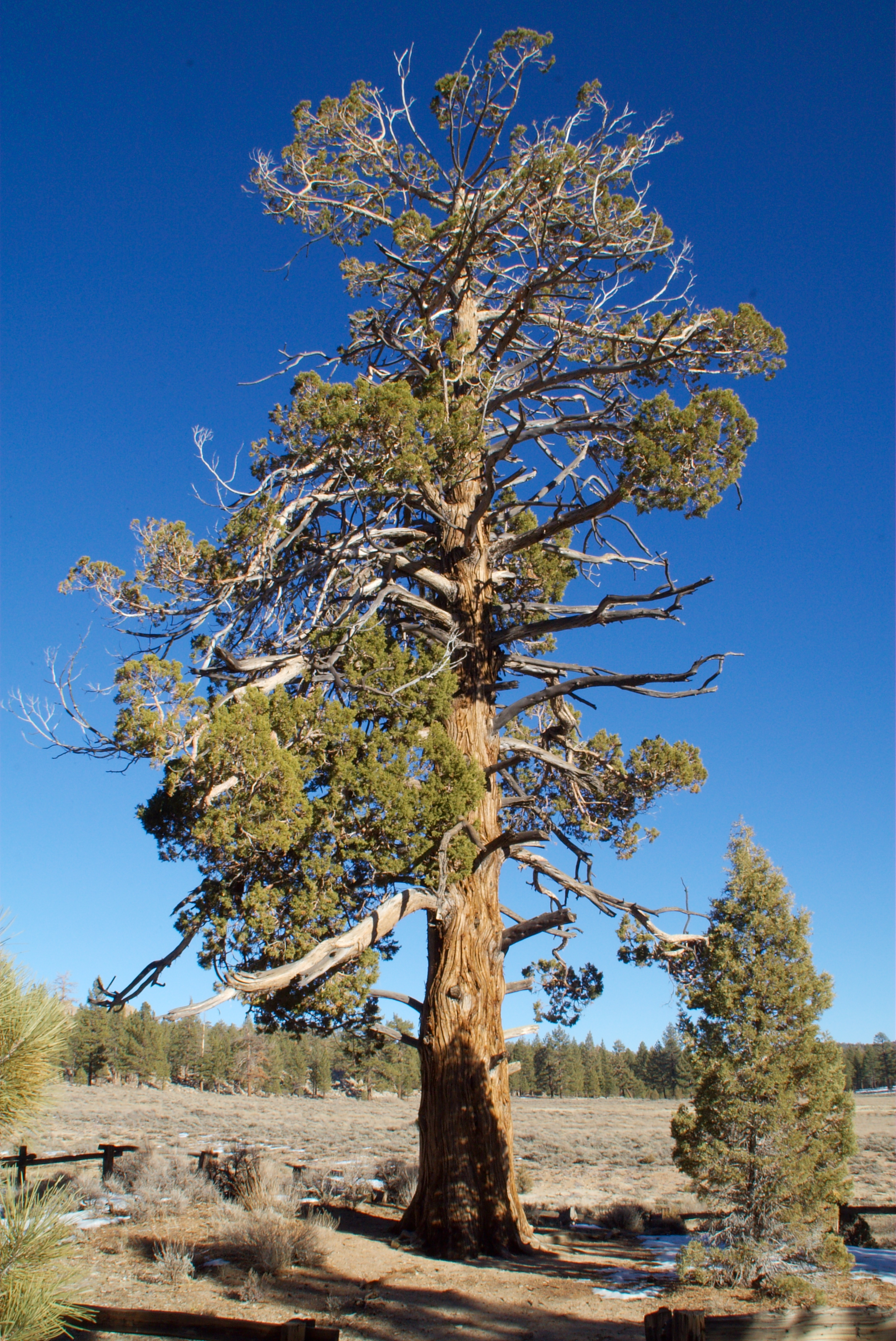 "This stately Juniper stands today as a lone symbol of the law and justice of the early turbulent days of Holcomb Valley. As miners and prospectors came to seek their fortune, outlaws, claim jumpers, gamblers, and general troublemakers followed close behind. In late August, 1861, the notorious little valley was taken over by an organized gang of horse thieves from Salt Lake City known as the Button's Gang. This gang ruled so fiercely that its members could take over almost any cabin, or force storekeepers to give them the equipment or supplies they wanted. Two incidents are illustrative of the 40 or 50 murders committed the first two years after the discovery of Holcomb Valley: When "Greek George" jumped the claim of "Charlie the Chink", a duel to the finish ensued. "Hell Roaring Johnson" was shot when he tried to fix the first election held in the valley. Not all of the fugitives evaded justice. There is recorded evidence of as many as four convictions and subsequent hangings at one time on this tree. When the victim of a hanging was finally cut down, the branch from which the rope hung was chopped off. So you can tell how many "met their Maker here. " Historic Western Juniper (Juniperus occidentalis) tree in Holcomb Valley of the San Bernardino Mountains, Southern California.